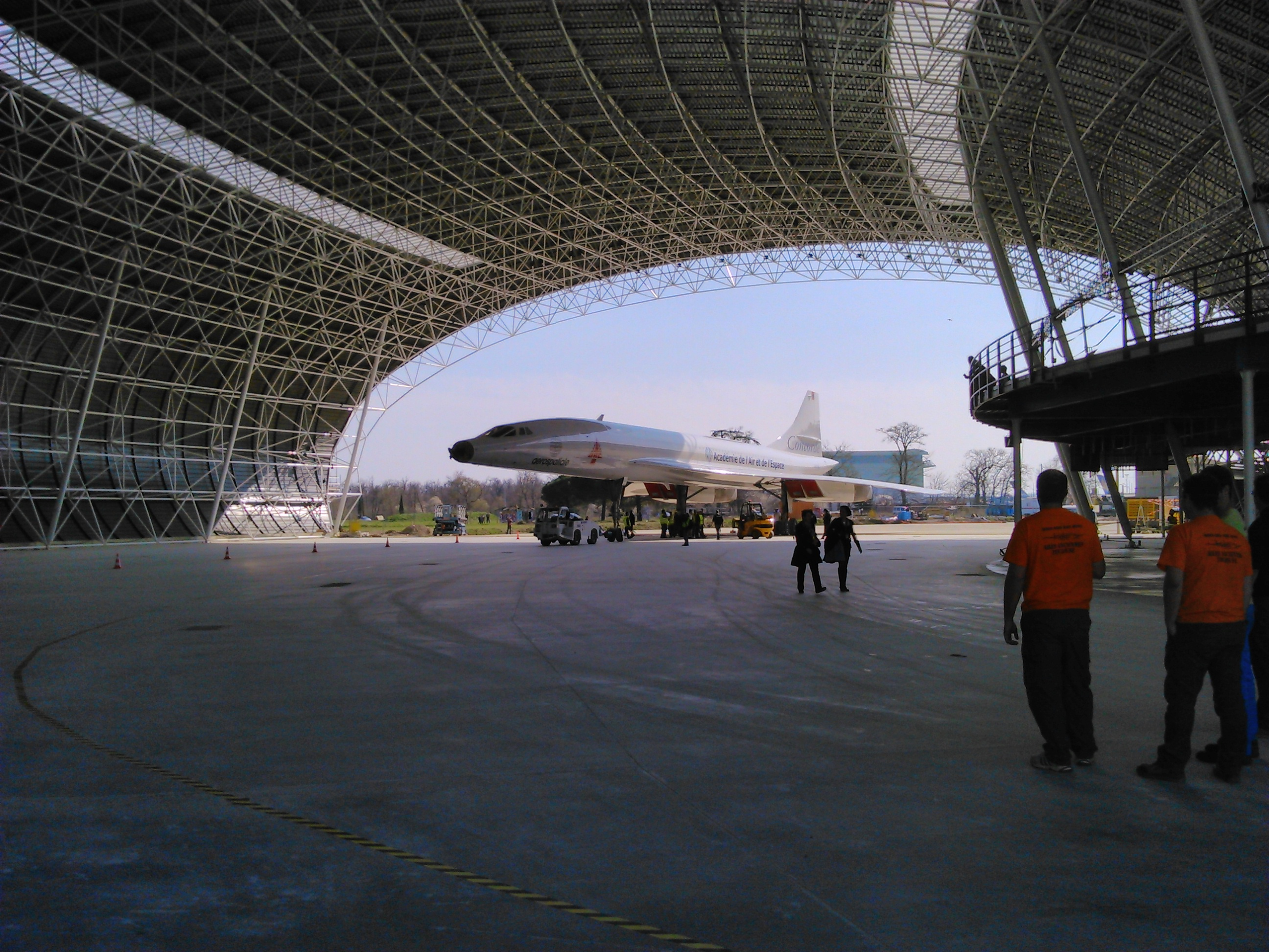 Entrance of Concorde F-WTSB in the museum Aeroscopia.